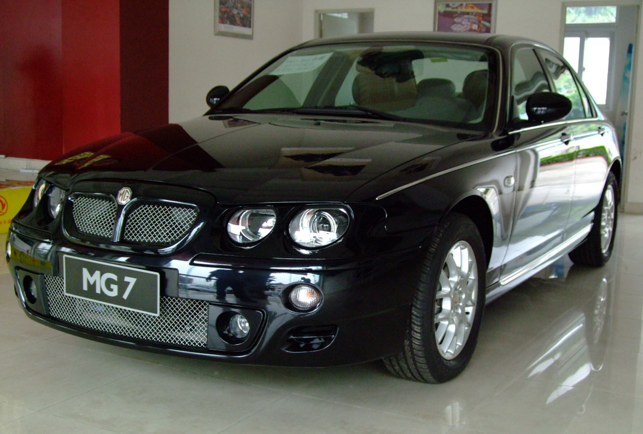 2008 MG 7 sedan in China